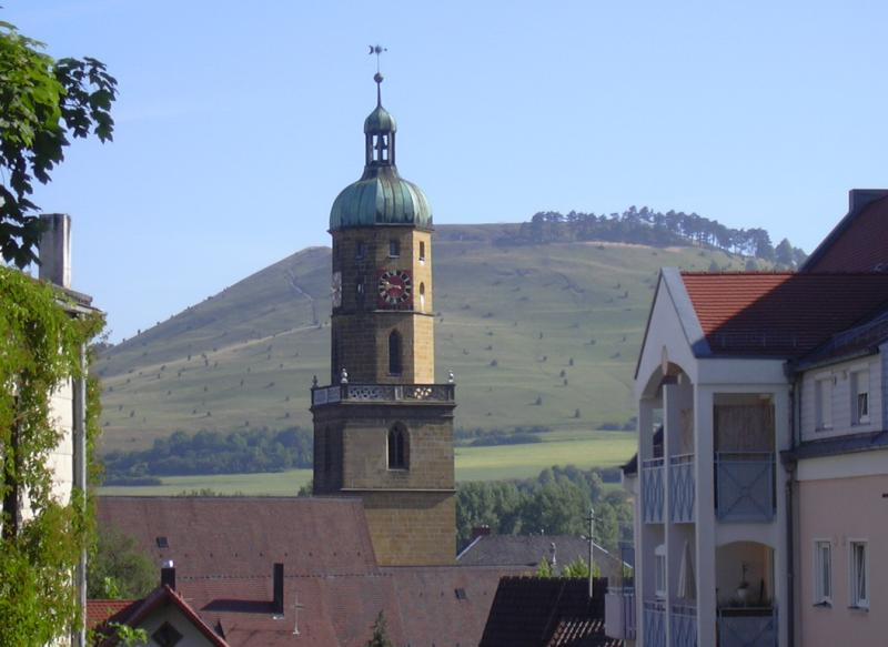 Church of Bopfingen, Germany, in the background the Ipf hill can be seen